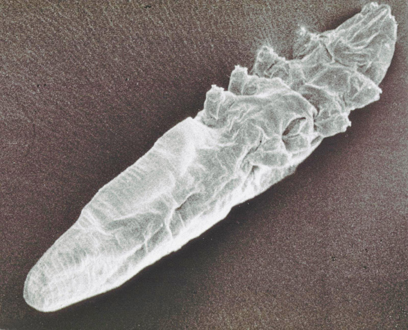 Scanning electron microscope image of a parasitic mite of domestic animals.